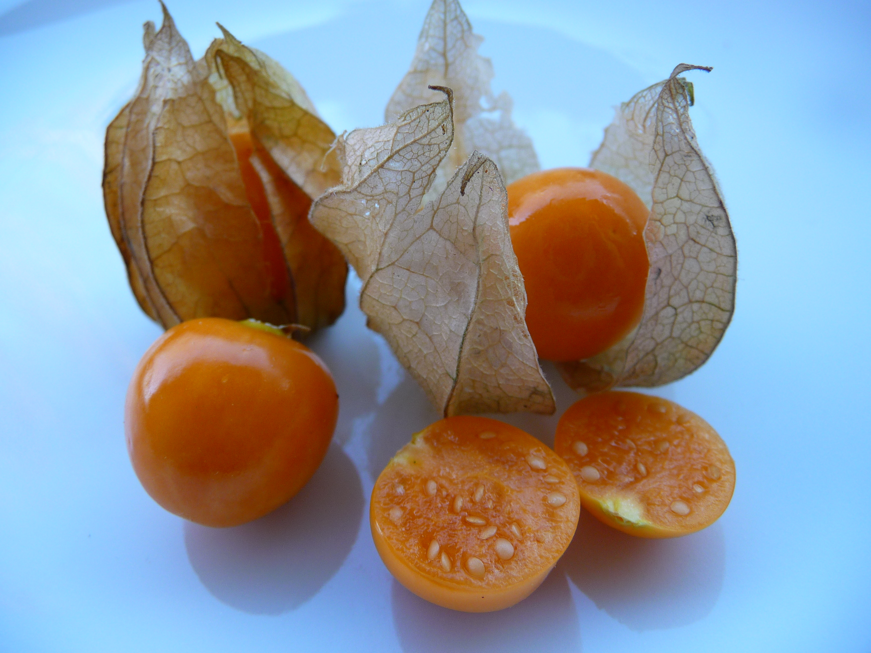 Physalis peruviana